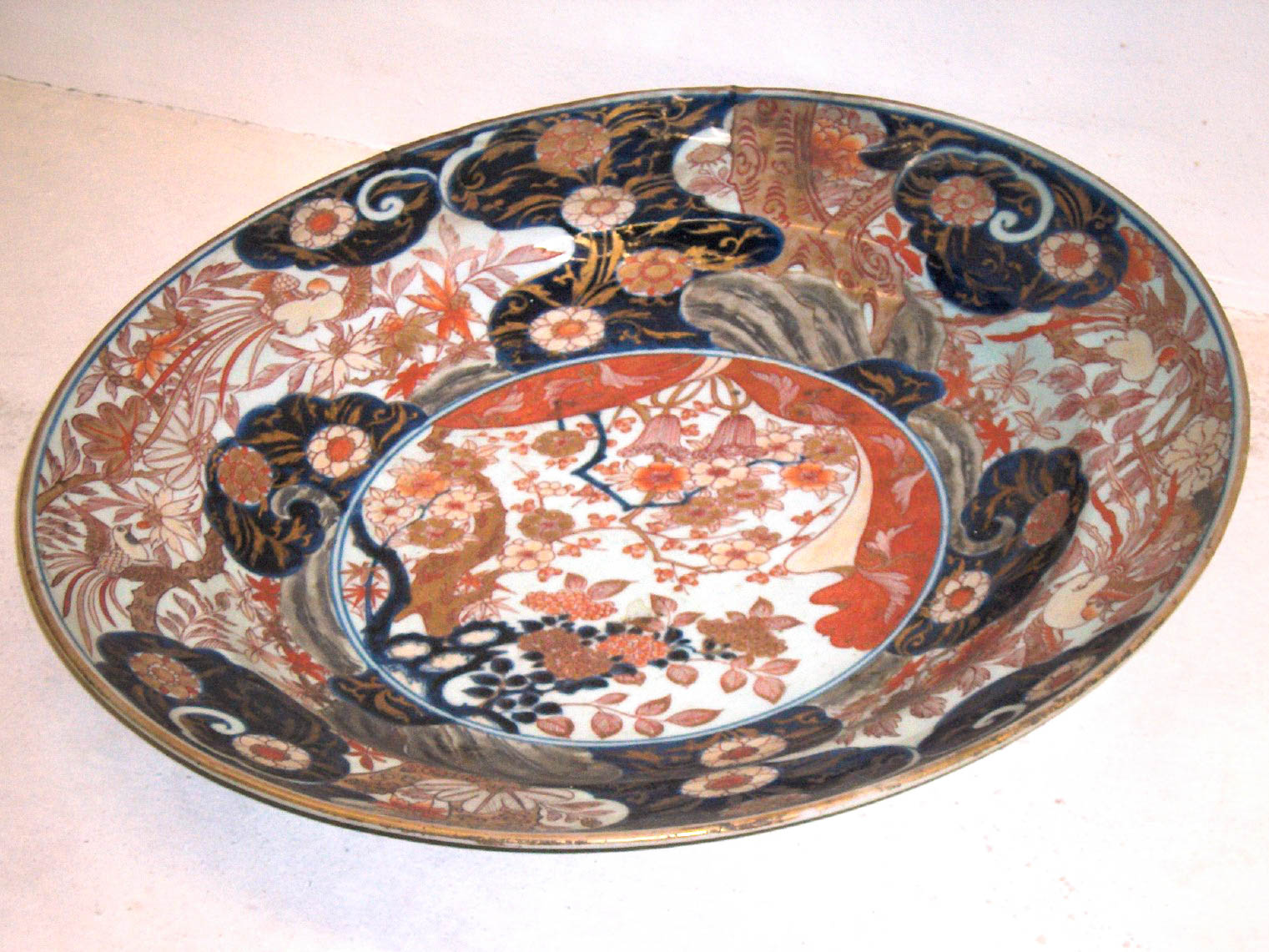 Kitchen; collection of Japanese porcelain; Imari dish; 1700-1740; Topkapı Palace, Istanbul, Turkey